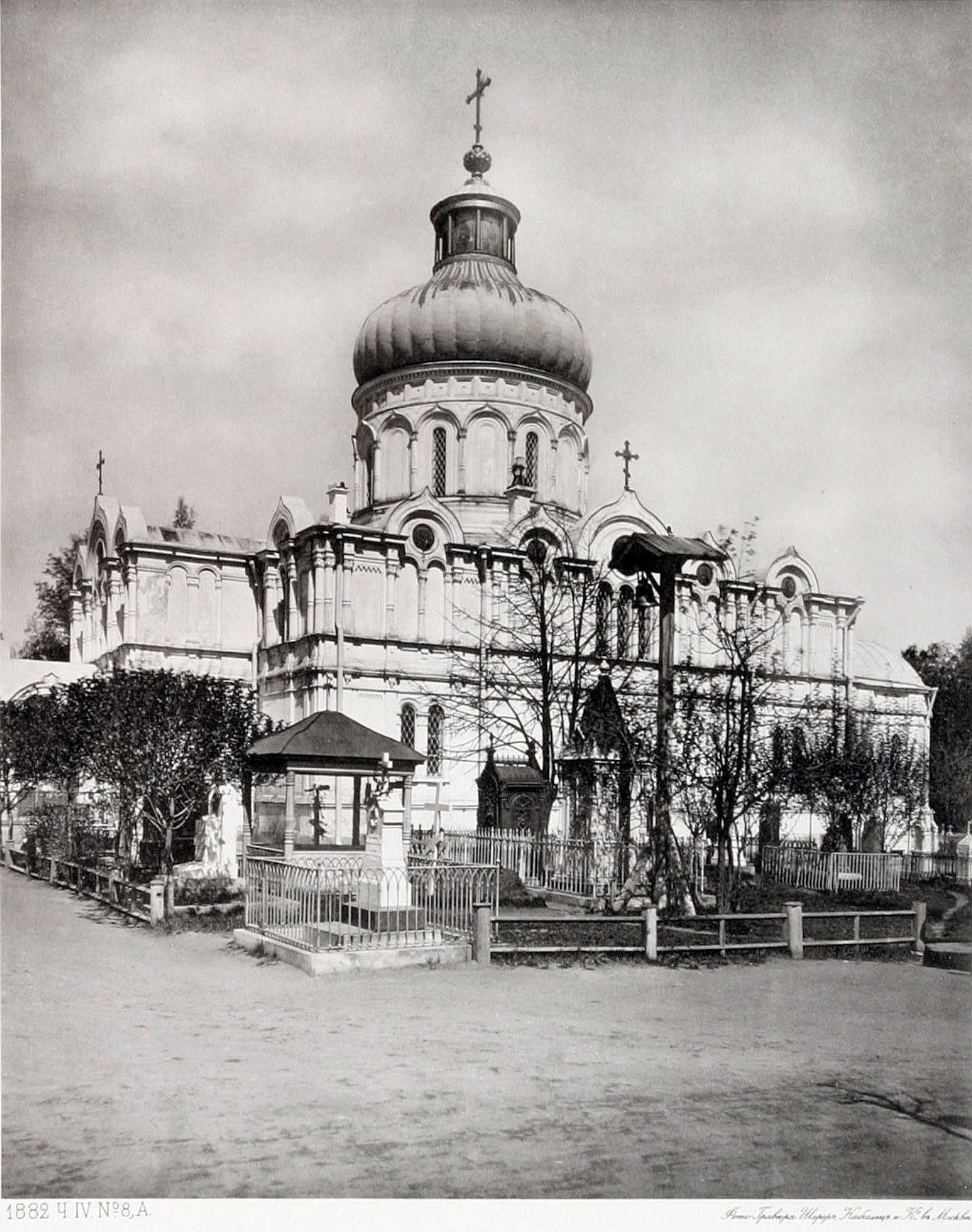 1882 photo, Church of Alexey in Alexeyevsky Convent, Krasnoselsky District, Moscow (destroyed). Completed 1853 by Mikhail Bykovsky